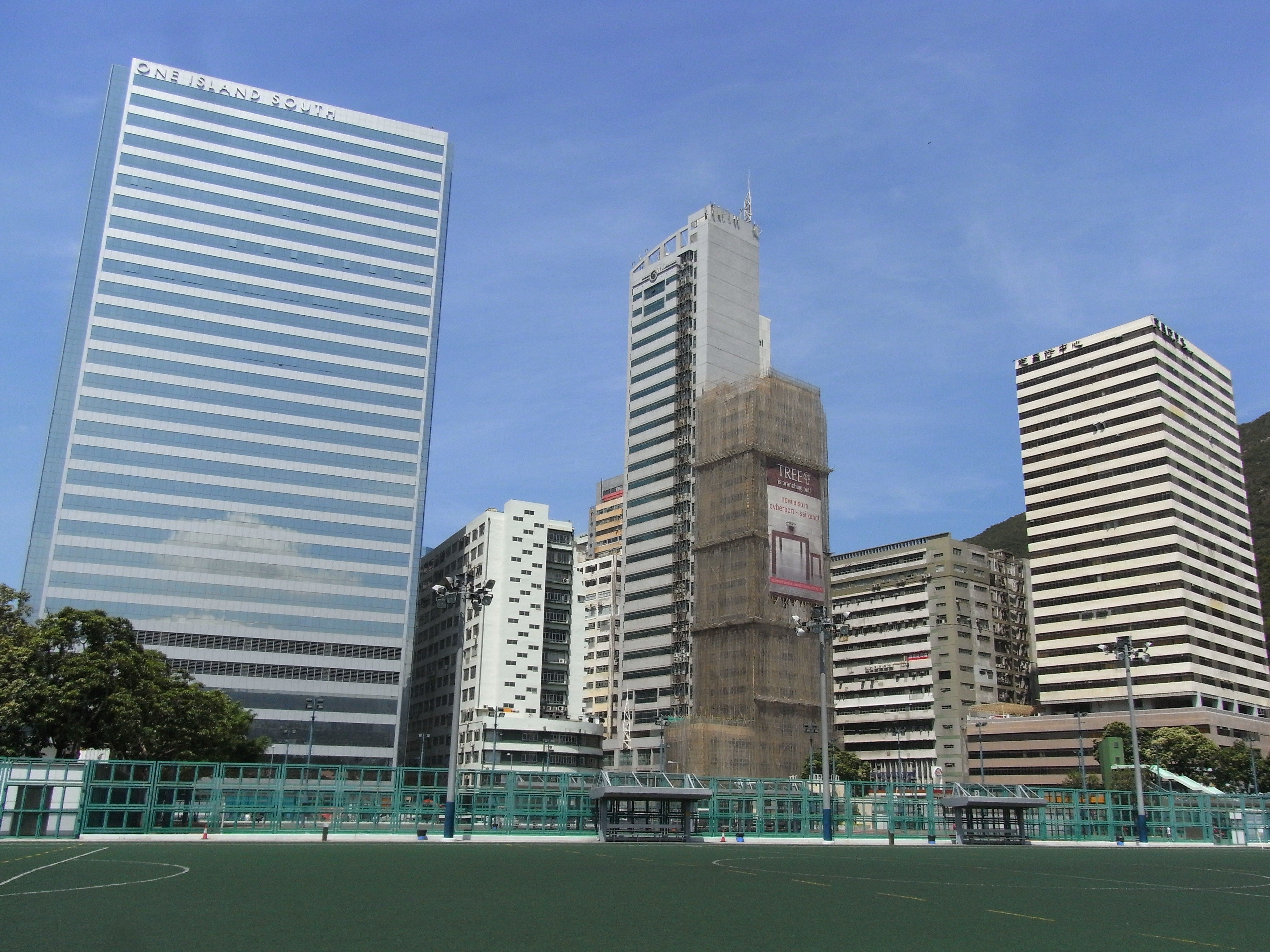 黃竹坑 One Island South 香港仔運動場 & Aberdeen Sports Ground, Wong Chuk Hang, Hong Kong